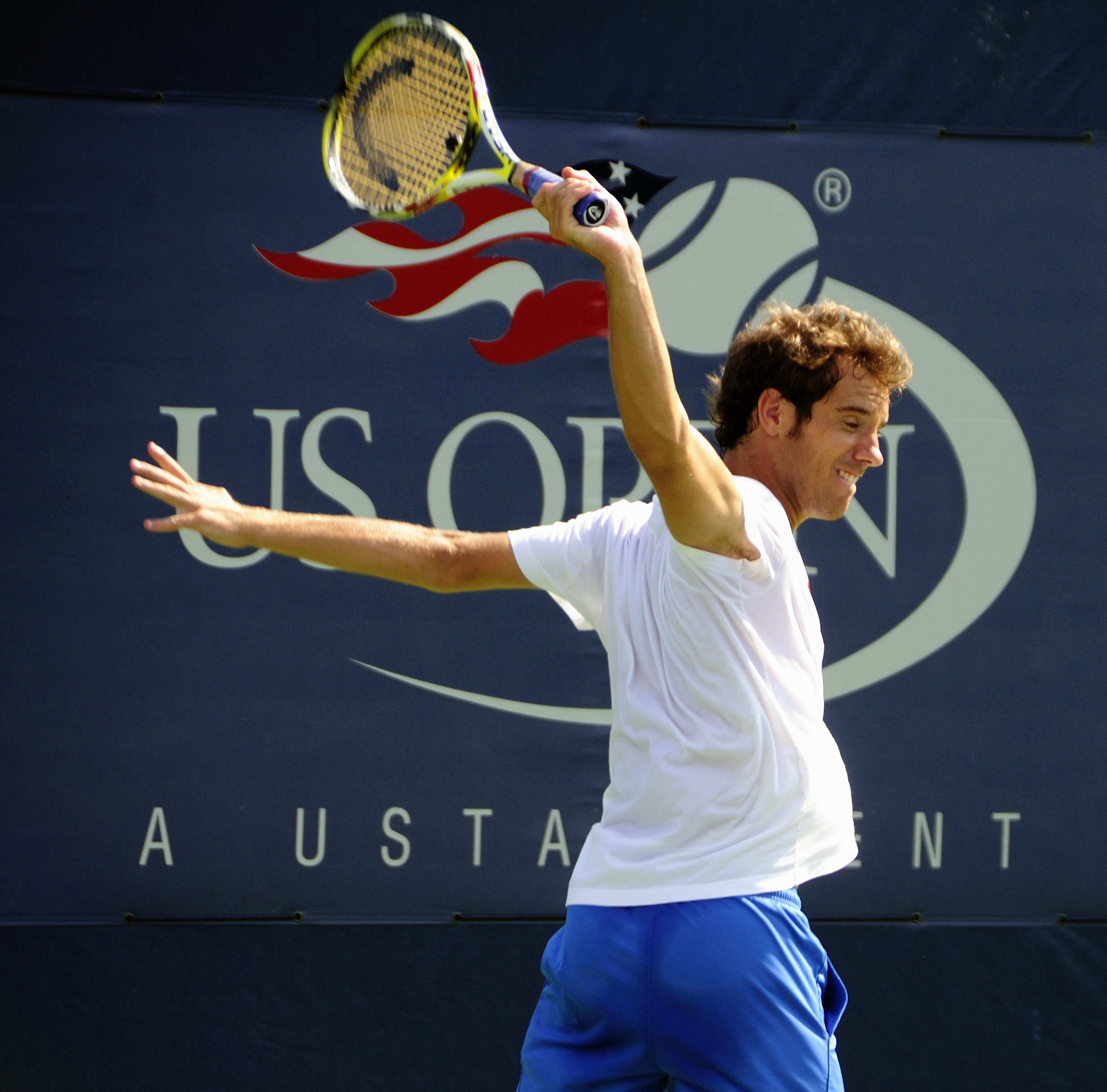 Richard Gasquet at the 2009 US Open